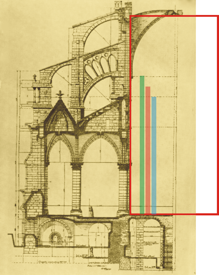 The means in the section of the Chartres-cathedral